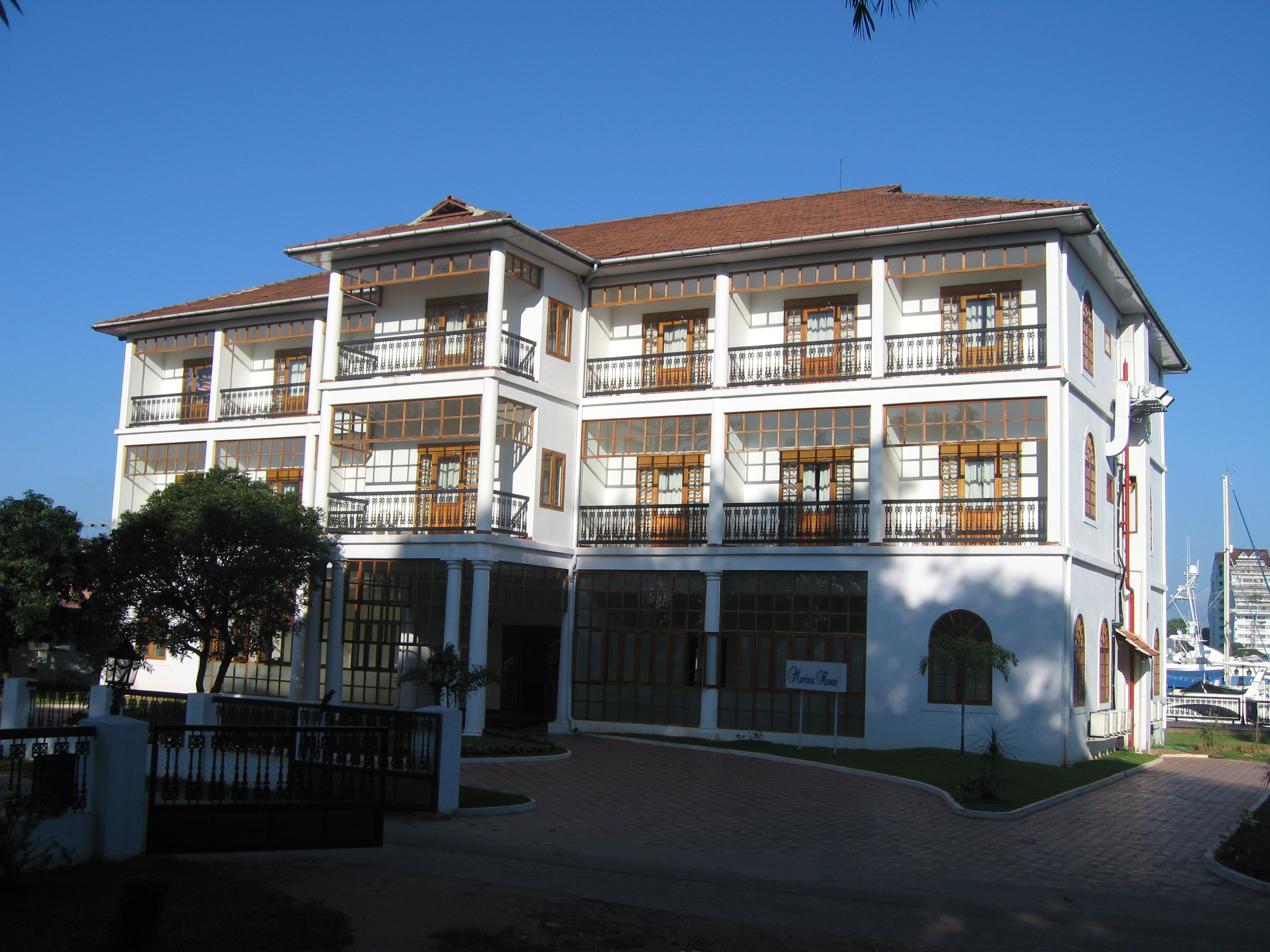 The Kochi Marina is the first marina in India.